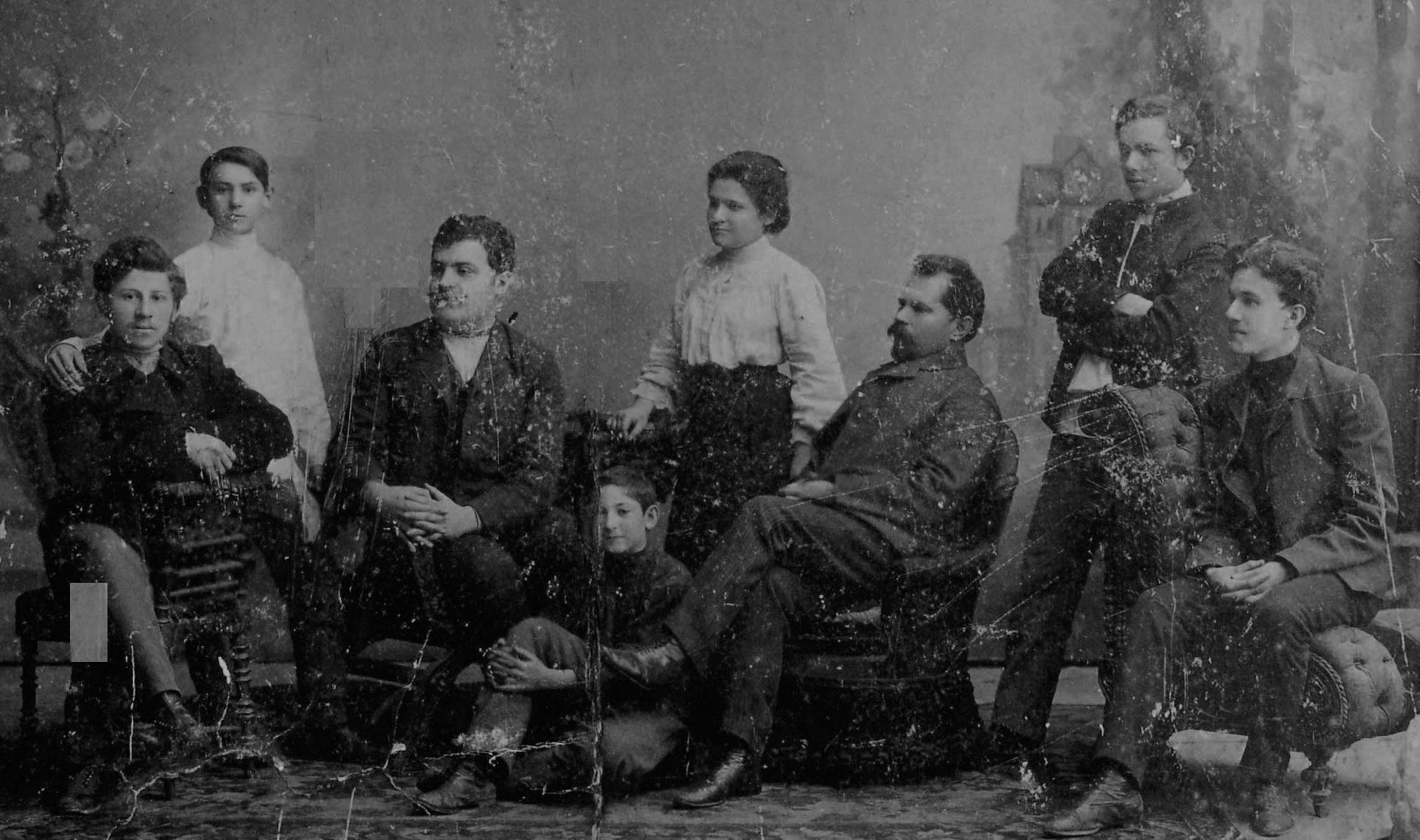 S. I. Umansky (3rd from the right), famous Lugansk photographer, with followers. L. Matusovsky (3rd from the left). Late XIX century.